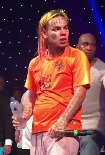 6ix9ine at a concert